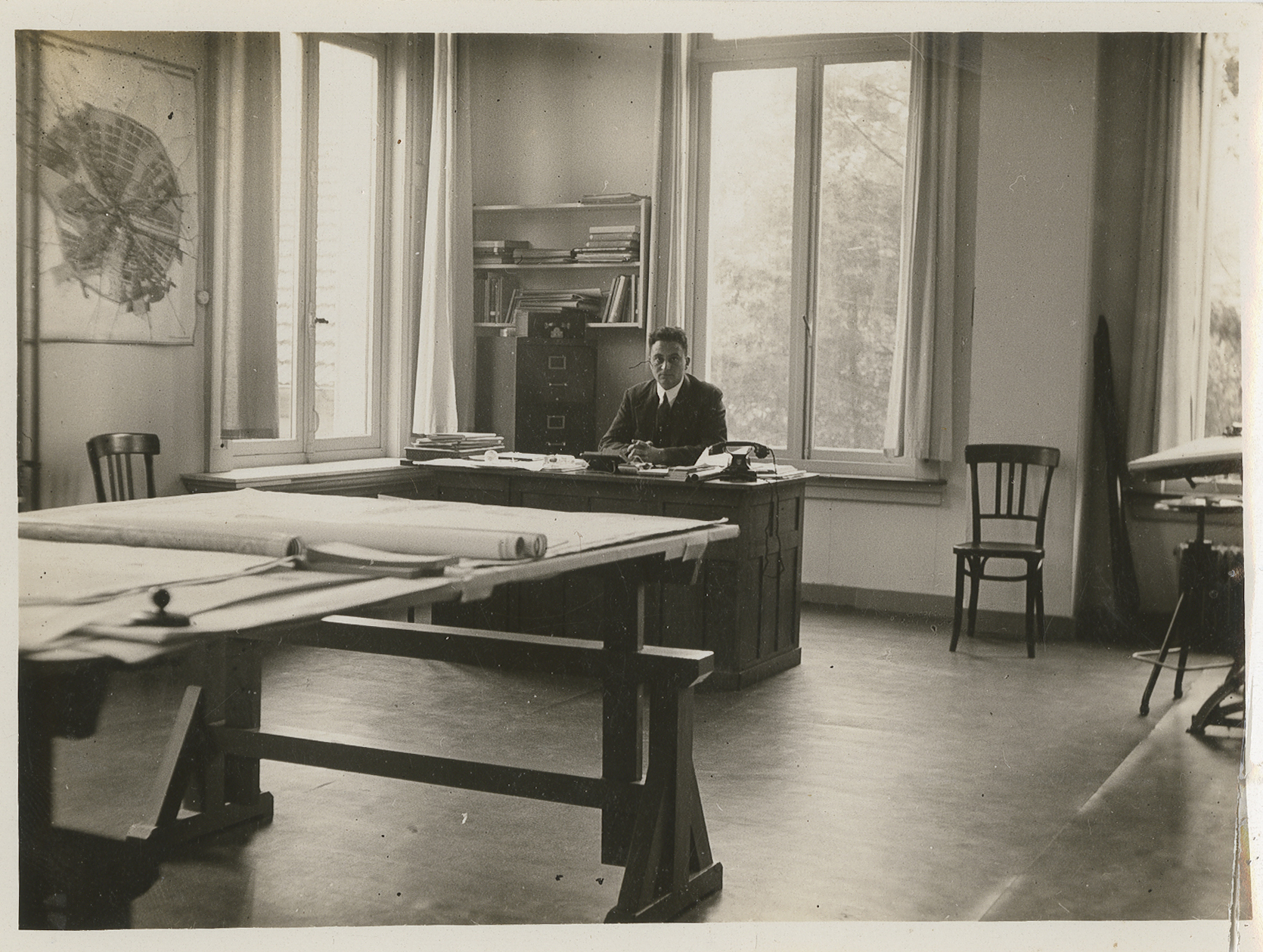 Het Nieuwe Instituut’s photo collection contains a large number of photographs of architects: at the drawing board, on a study trip, giving a lecture, in a meeting, teaching students, on holiday, at lunch. From snapshots made at the periphery of their profession to formal portraits made for prospective members of the BNA, the Netherlands architects association. See more portraits on the website